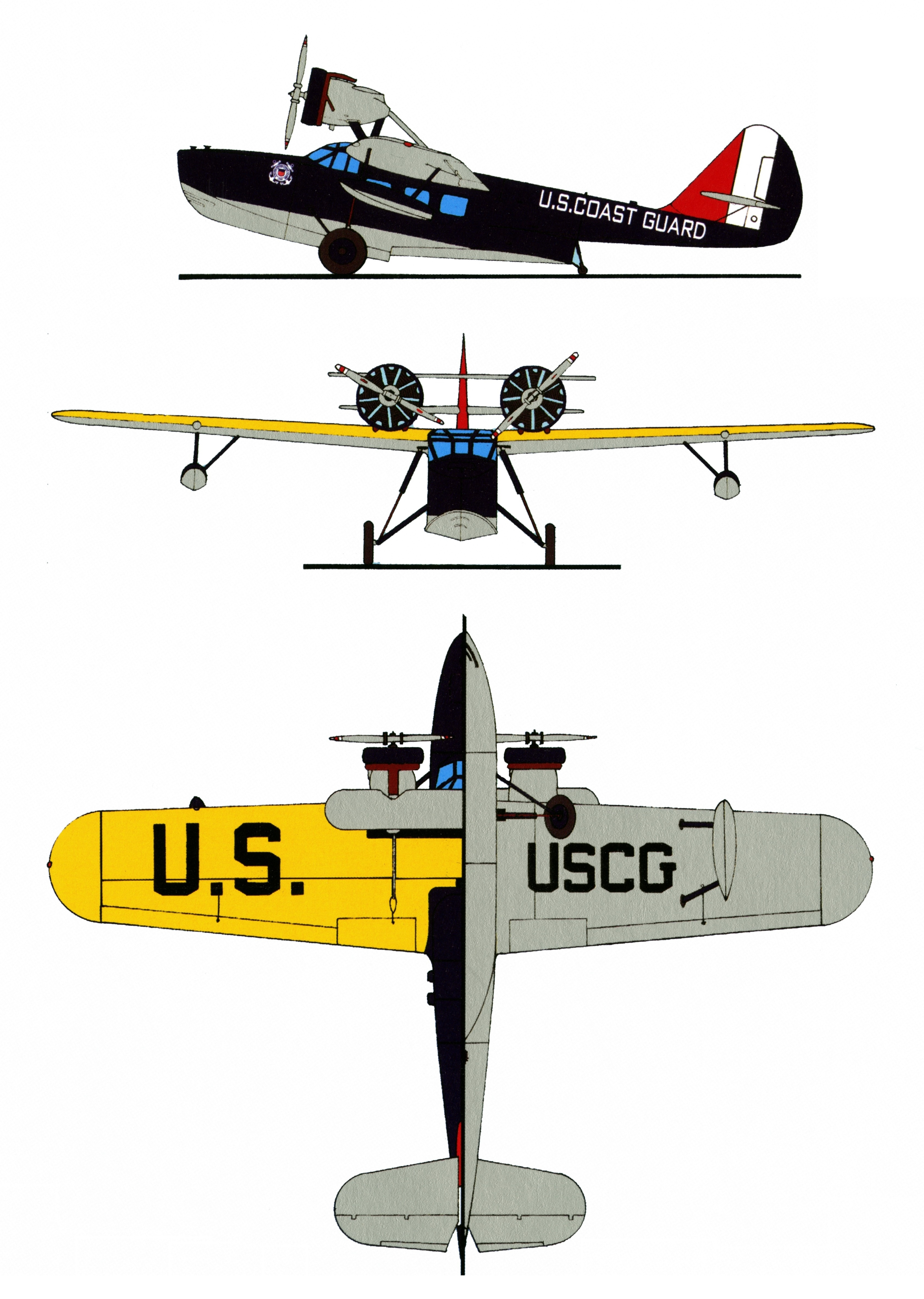 Coloured drawings for the U.S. Coast Guard Douglas RD-4 Dolphin.